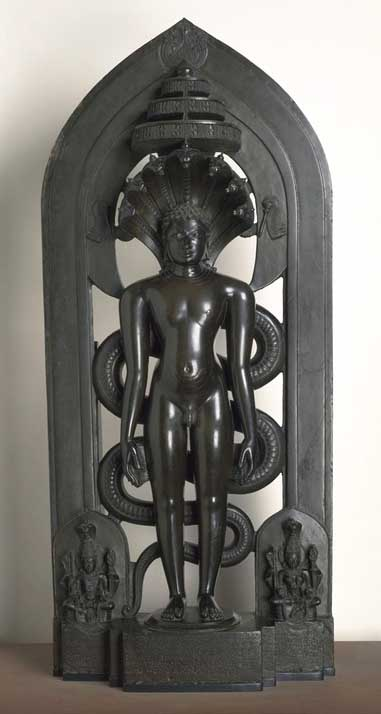 Jina Parshvanatha, 12th century, Chakravarti Paloja V&A Museum no. 931(IS) Techniques - Black shale Place - Gulbarga, India Dimensions Height 151 cm, Width 66 cm, Depth 28 cm